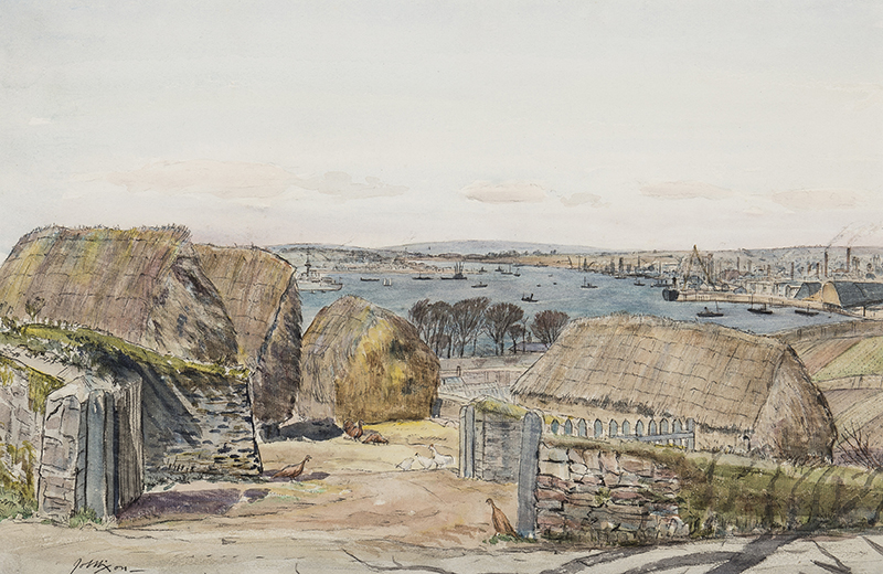 Offered for sale by Abbott and Holder in February 2020 when it was described as "‘Home Farm – near Plymouth’. Chalk, ink and watercolour. Circa 1930. Signed, inscribed verso. Provenance: Estate of the Artist’s daughter. 12x18 inches."